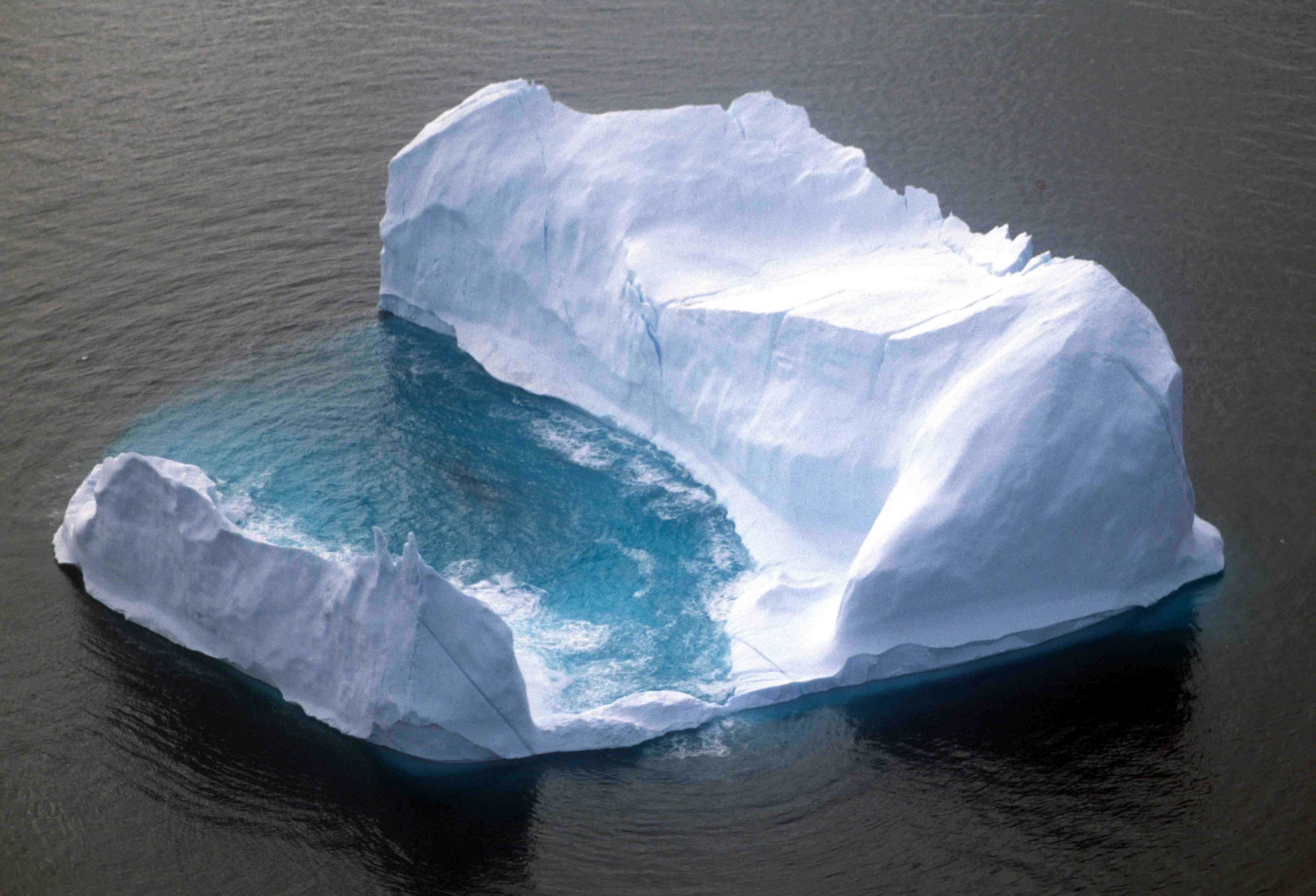 Iceberg near north-eastern coast of Baffin Island